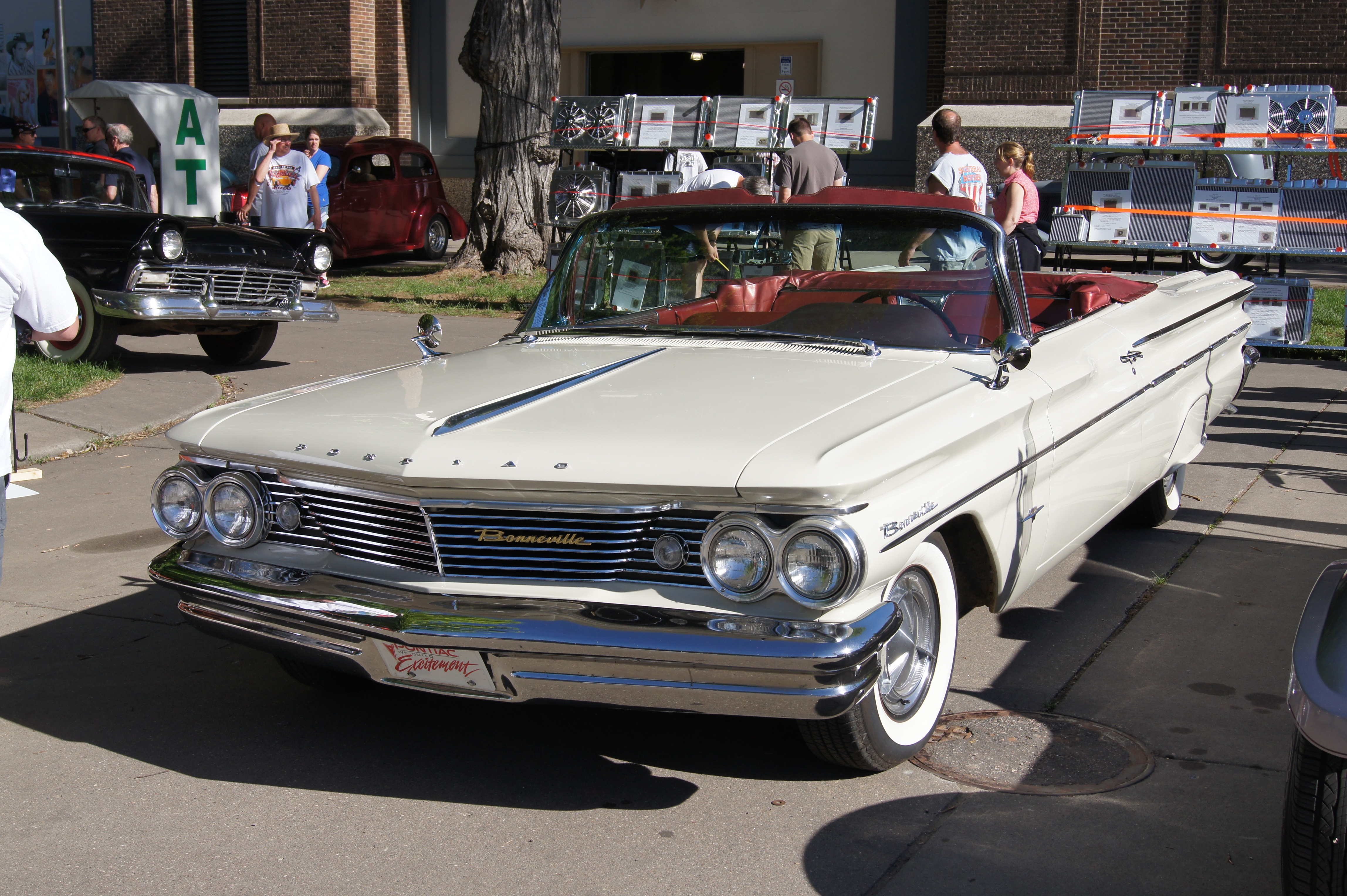 MSRA “BACK TO THE 50′s” 41st Annual June 20-22, 2014 State Fairgrounds St. Paul Minnesota More Car Pictures